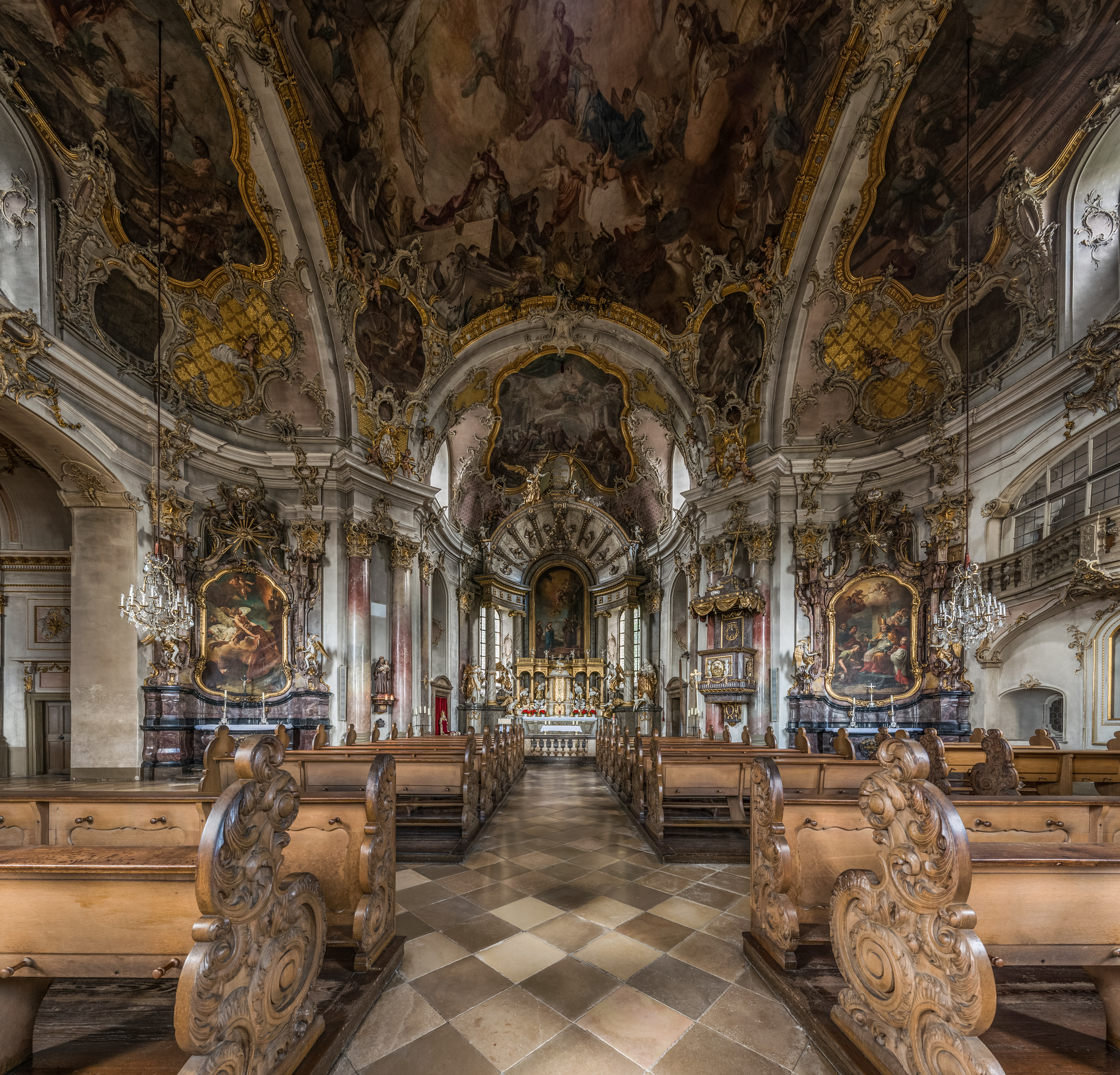 The Nave of the Käppelle Church in Würzburg